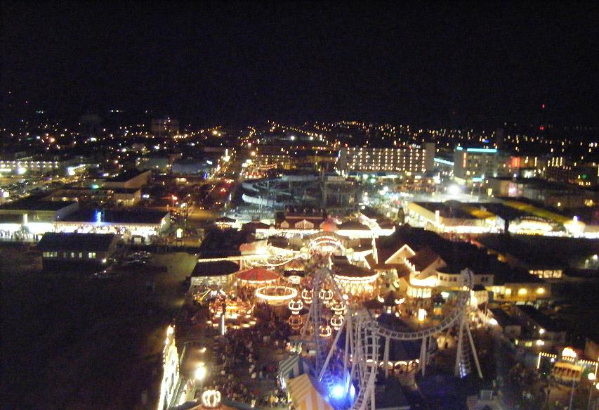 A nighttime view of Wildwood, New Jersey from the Mariner's Landing ferris wheel